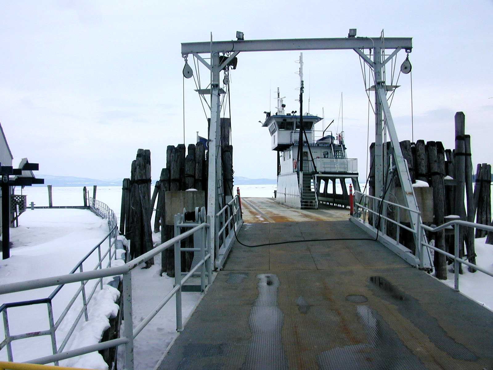 The Evans Wadhams Wolcott, one of the ferries of the Lake Champlain Transportation Company, lying in the slip in Burlington, VT during winter